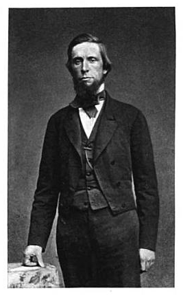 Portrait of Henry Oscar Houghton